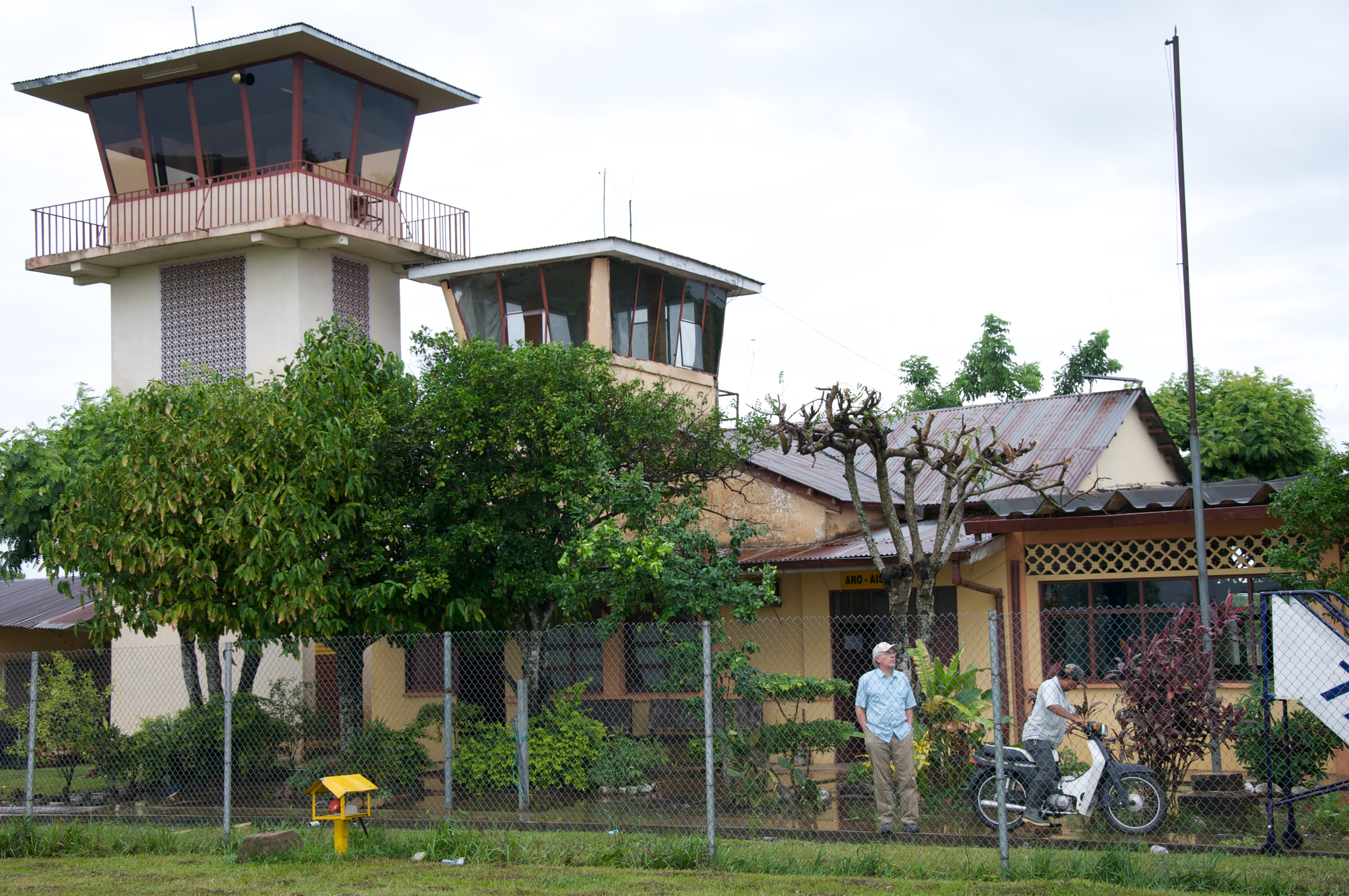 Captain German Quiroga Guardia Airport